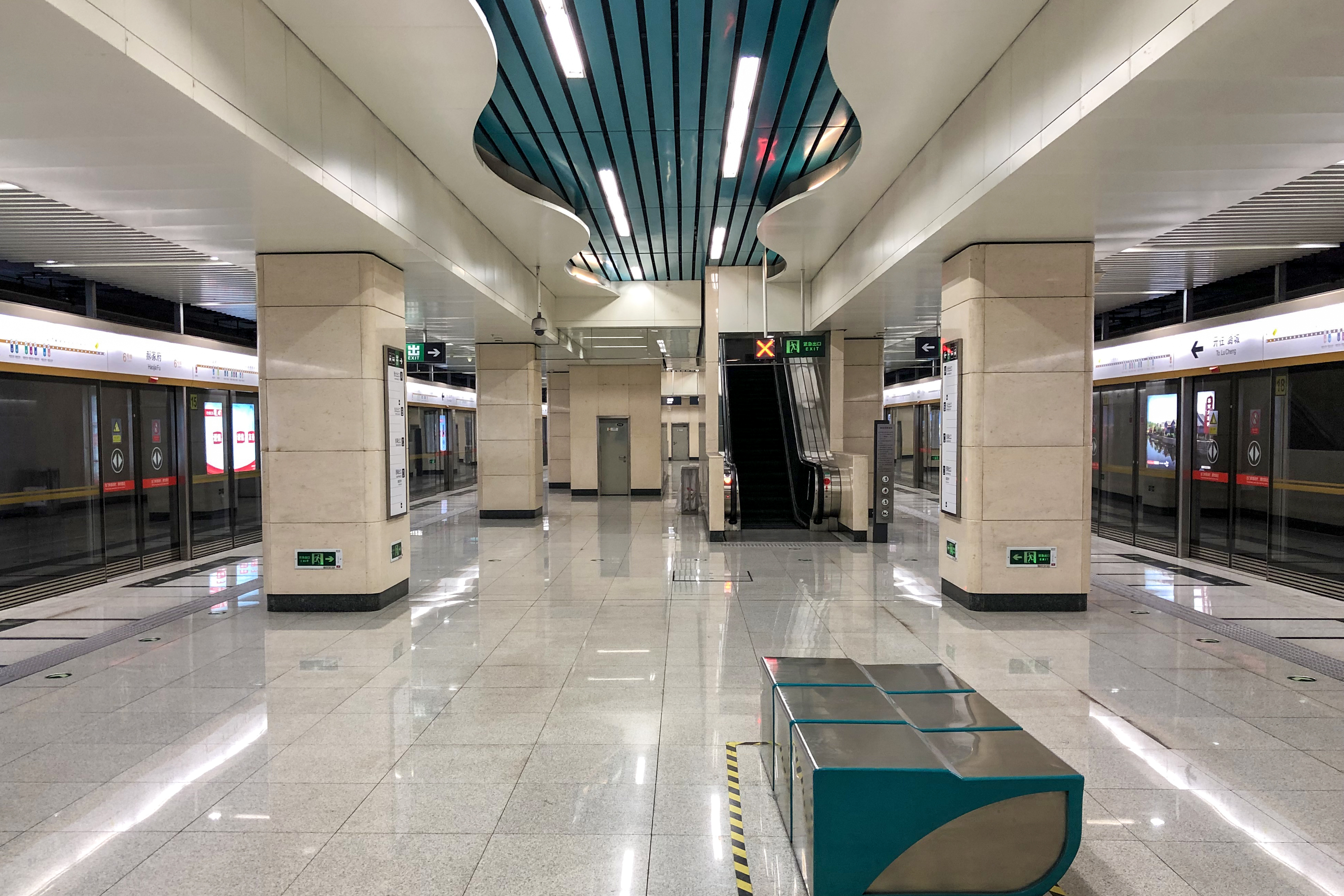 Not so much patrol on the platform.